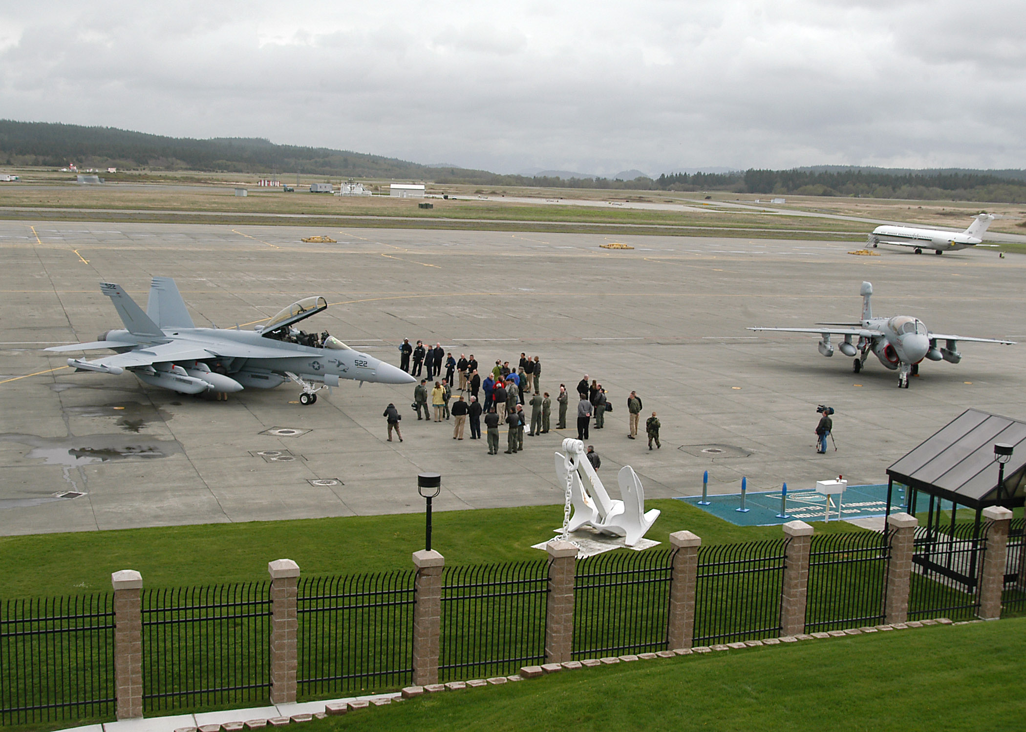 WHIDBEY ISLAND, Wash. (April 9, 2007) - EA-18G Growler is parked on the airfield next to an EA-6B Prowler. The EA-18G Growler landed at the Naval Air Station Whidbey Island for the first time. The EA-18 Growler is being developed to replace the fleet's current carrier-based EA-6B Prowler. The next-generation electronic attack aircraft, for the U.S. Navy, combines the combat-proven F/A-18 Super Hornet with a electronic warfare avionics. The EA-18G is expected to enter initial operational capability in 2009. U.S. Navy photo by Mass Communication Specialist 1st Class Bruce McVicar (RELEASED)